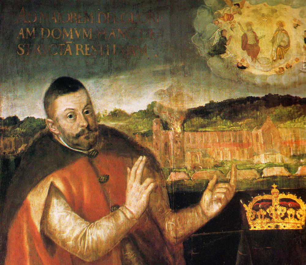 King Stefan Batory and burned closter in Oliwa